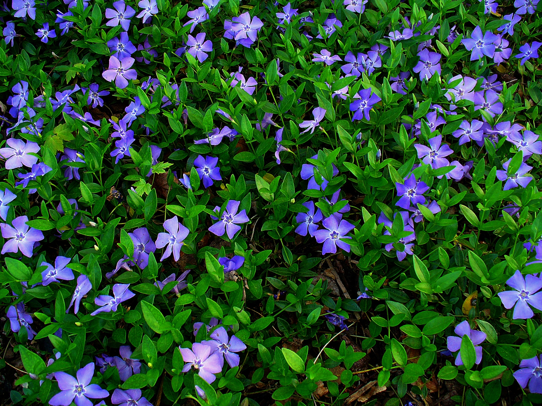 Vinca minor, Apocynaceae, Lesser Periwinkle, habitus; Karlsruhe, Germany.